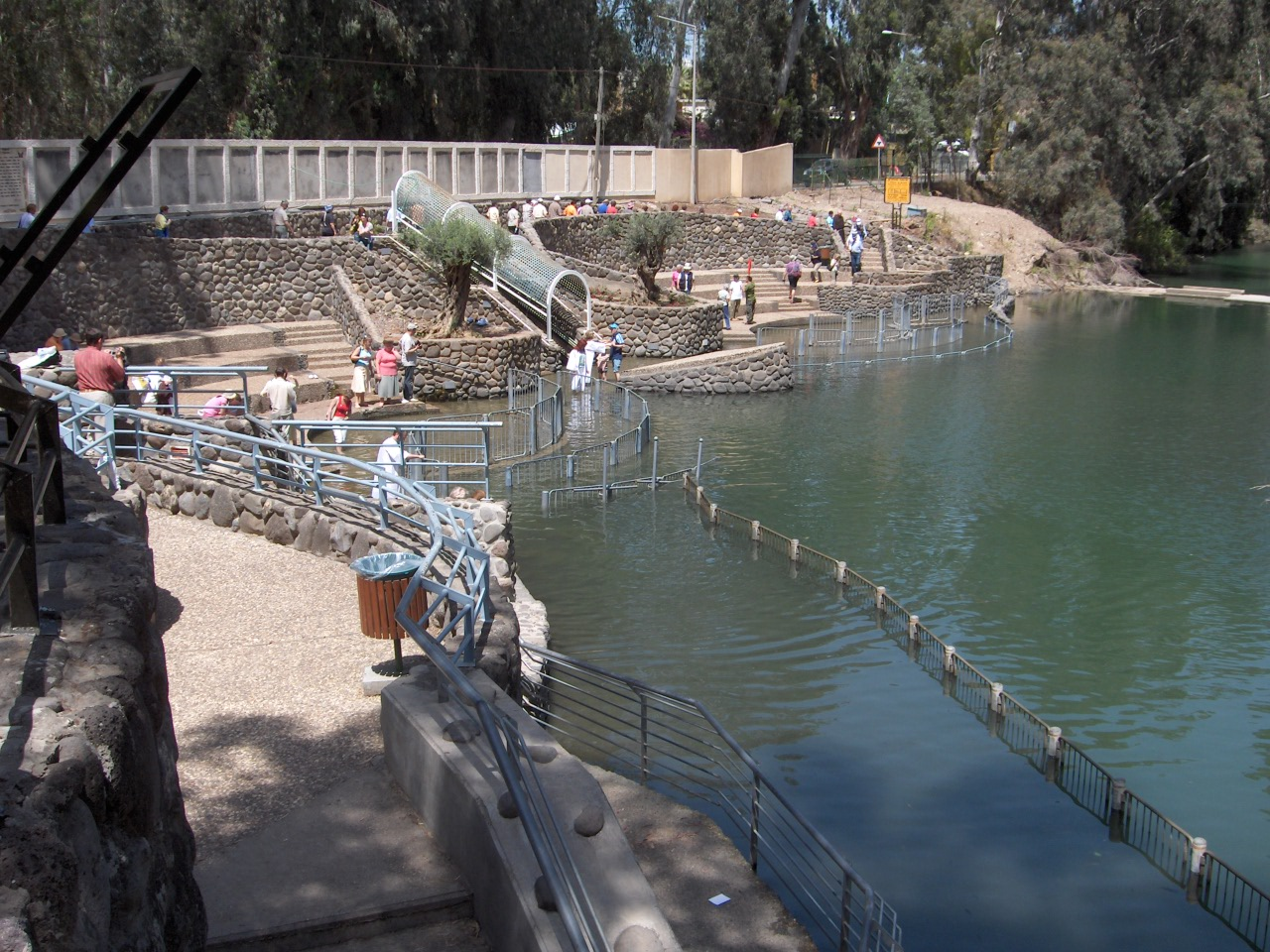 Place of baptism of Jesus Christ in Jordan River, Israel